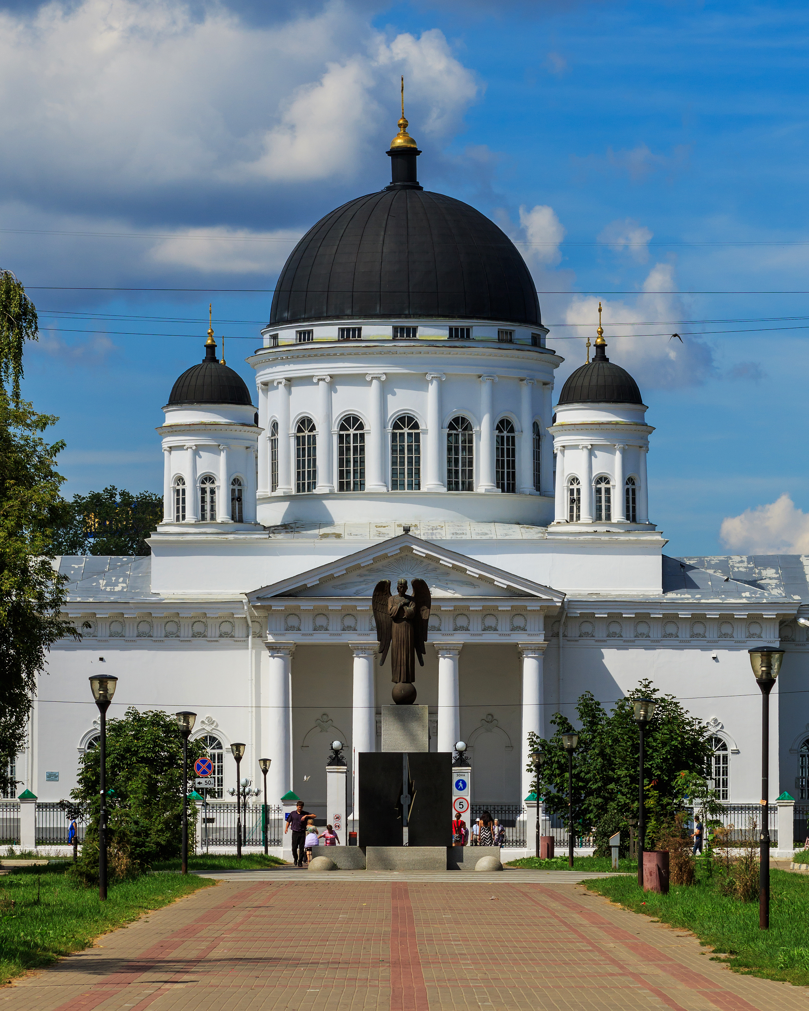 Old Fair Church of the Transfiguration in Nizhny Novgorod, Russia